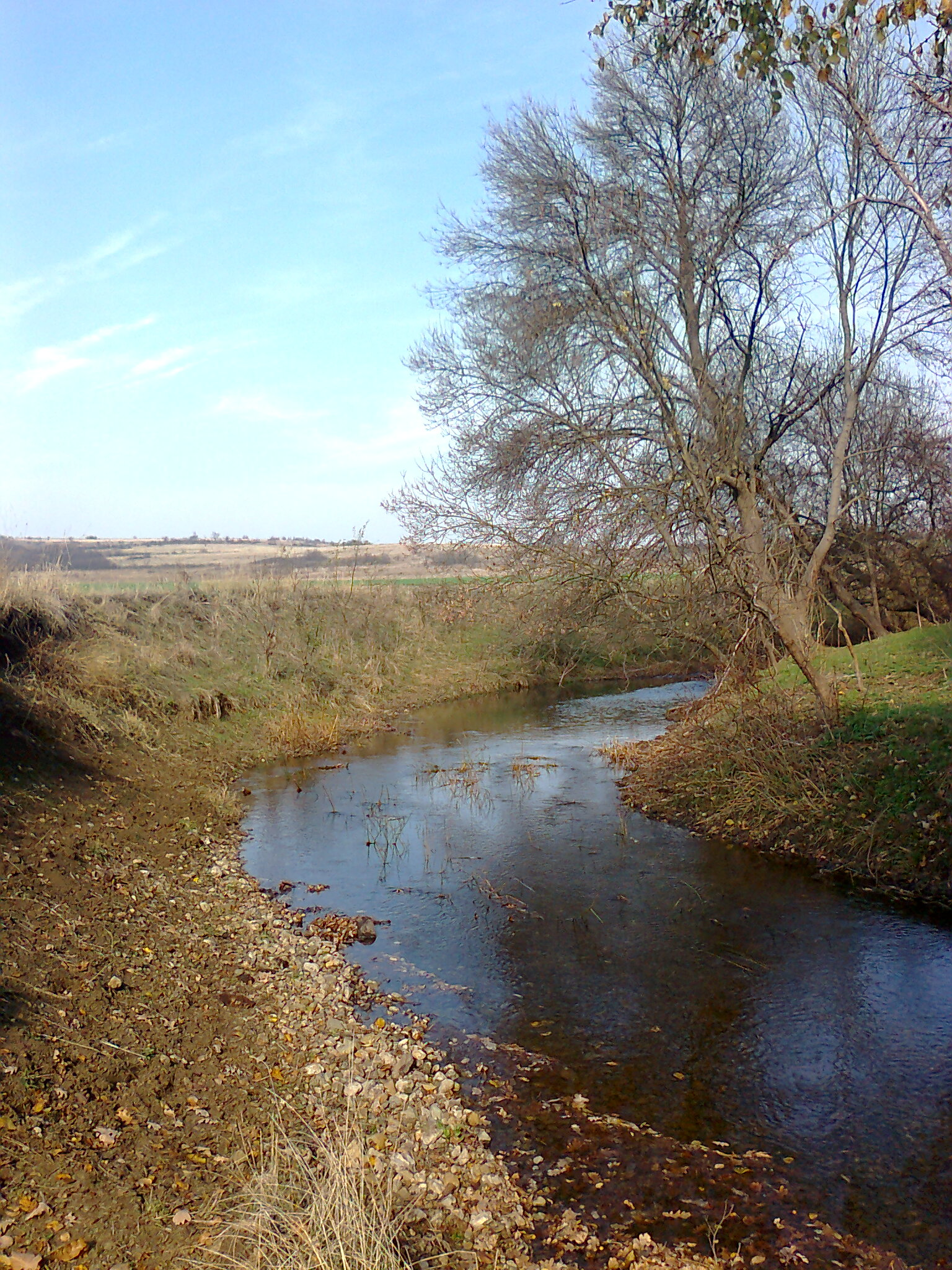 Araplìyska River.